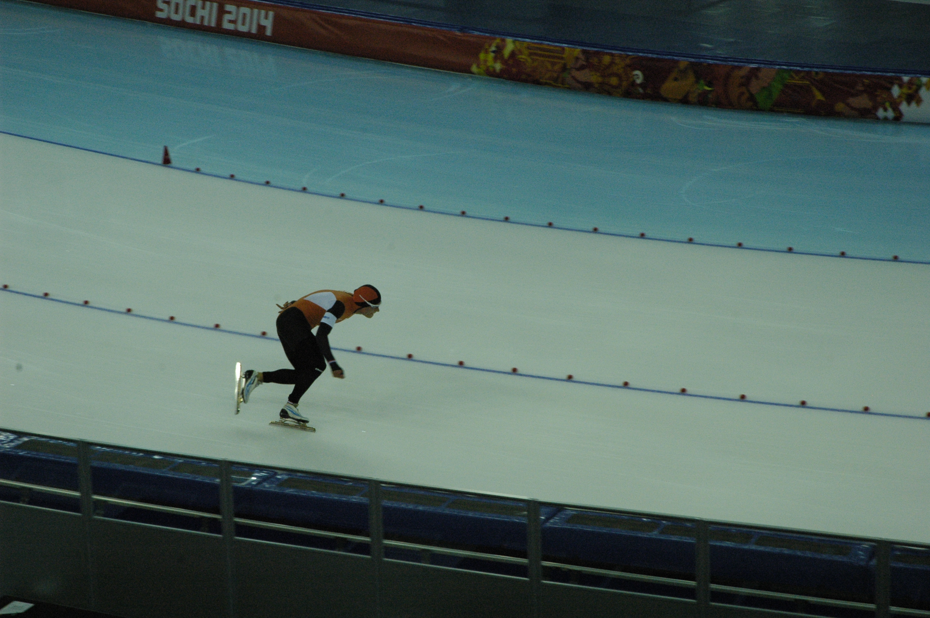 Men's 1500m, 2014 Winter Olympics, Koen Verweij(2)